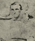 Photo crop of Rynie Wolters of the 1870 New York Mutuals baseball club